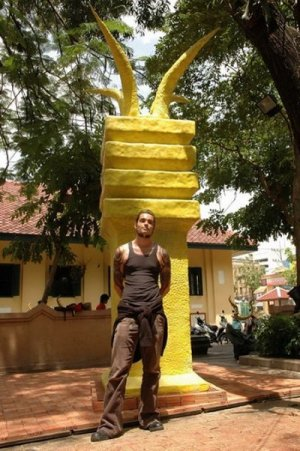 D.Stahlberg